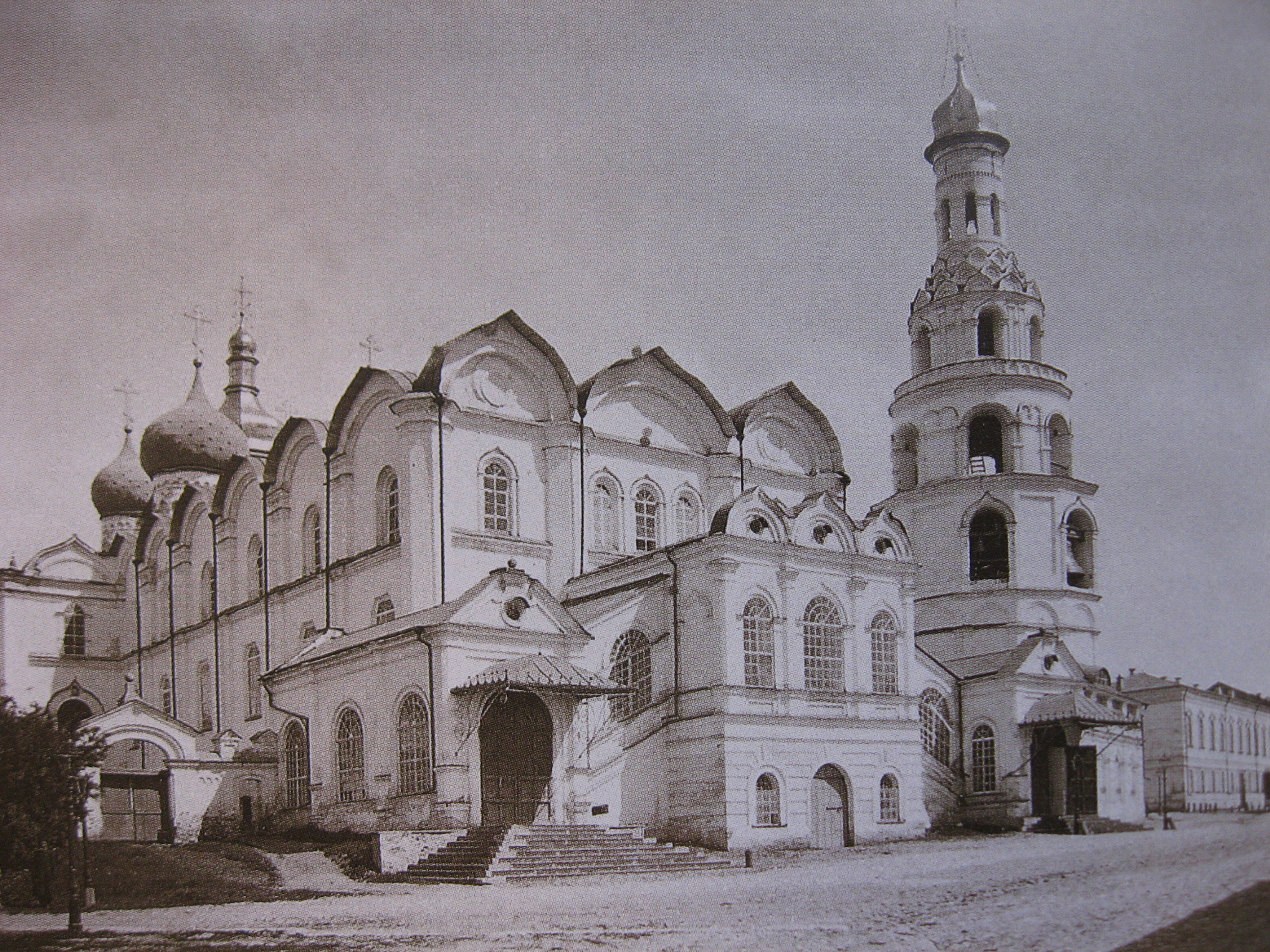 Annunciation Cathedral in Kazan Kremlin